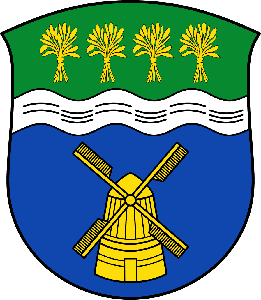 Coat of Arms of Vastorf First upload in de-wp: Janiiine (17:45, 13. Jul. 2006 - Bild:WappenVastorf.jpg)